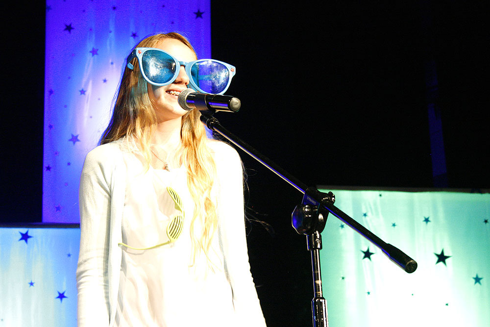 Koncert finałowy 21 Konkursu Piosenki „Wygraj Sukces” (Tarnobrzeg 11.06.2016).